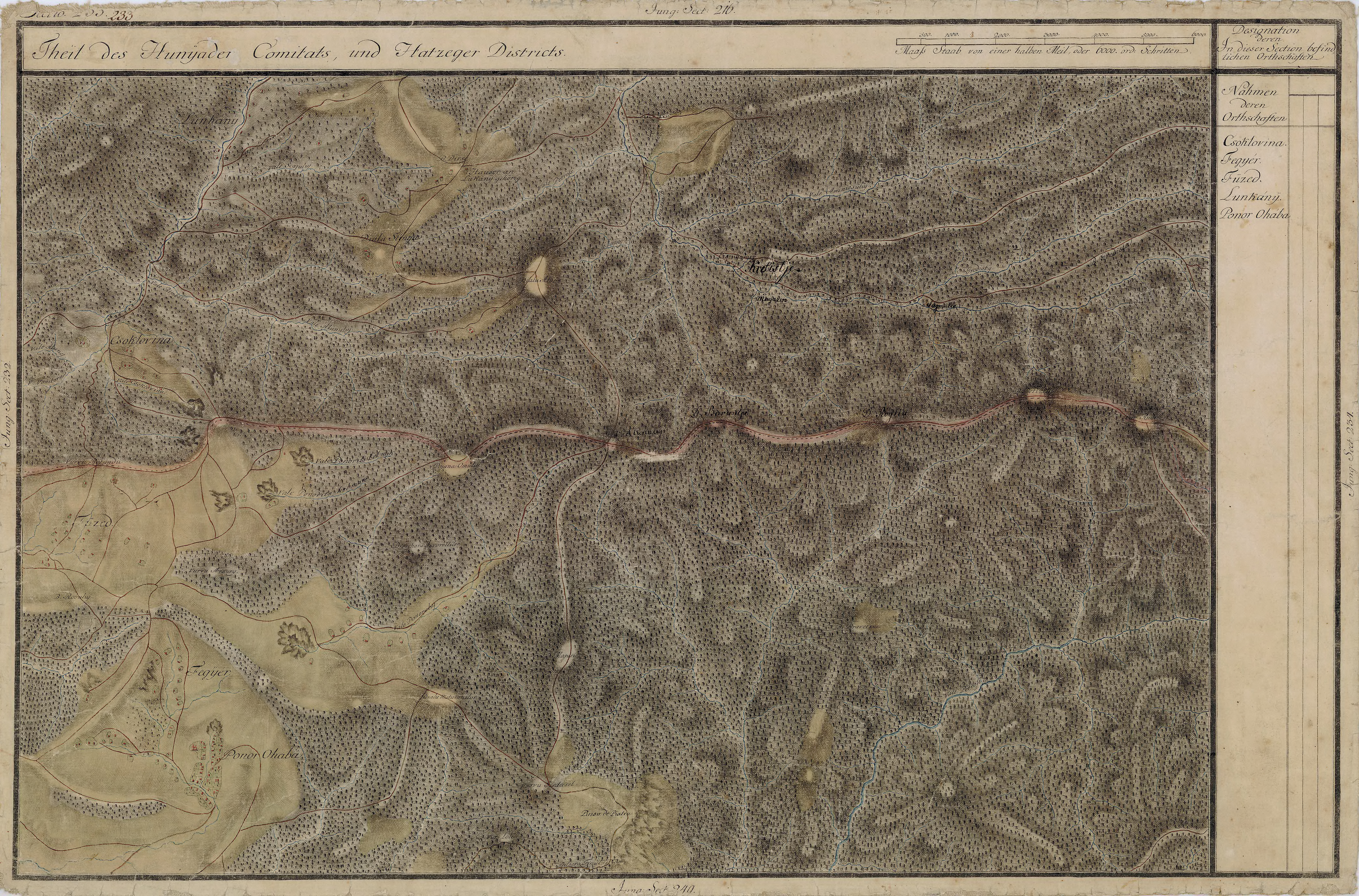 Grand Duchy of Transylvania, 1769-1773. Josephinische Landaufnahme pg.233